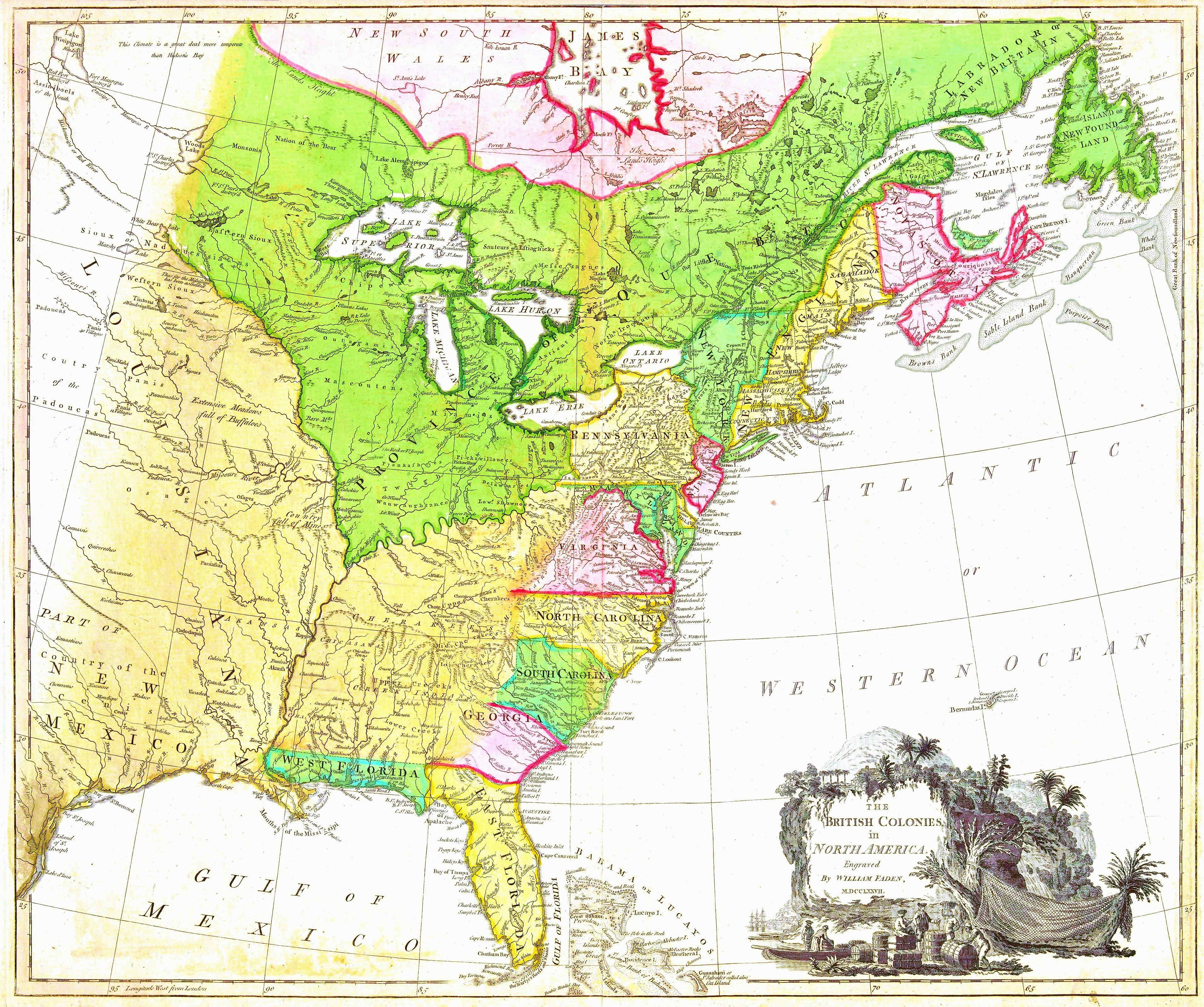 The British colonies in North America.; Lawrence H. Slaughter Collection of English maps, charts, globes, books and atlases / Charts and maps